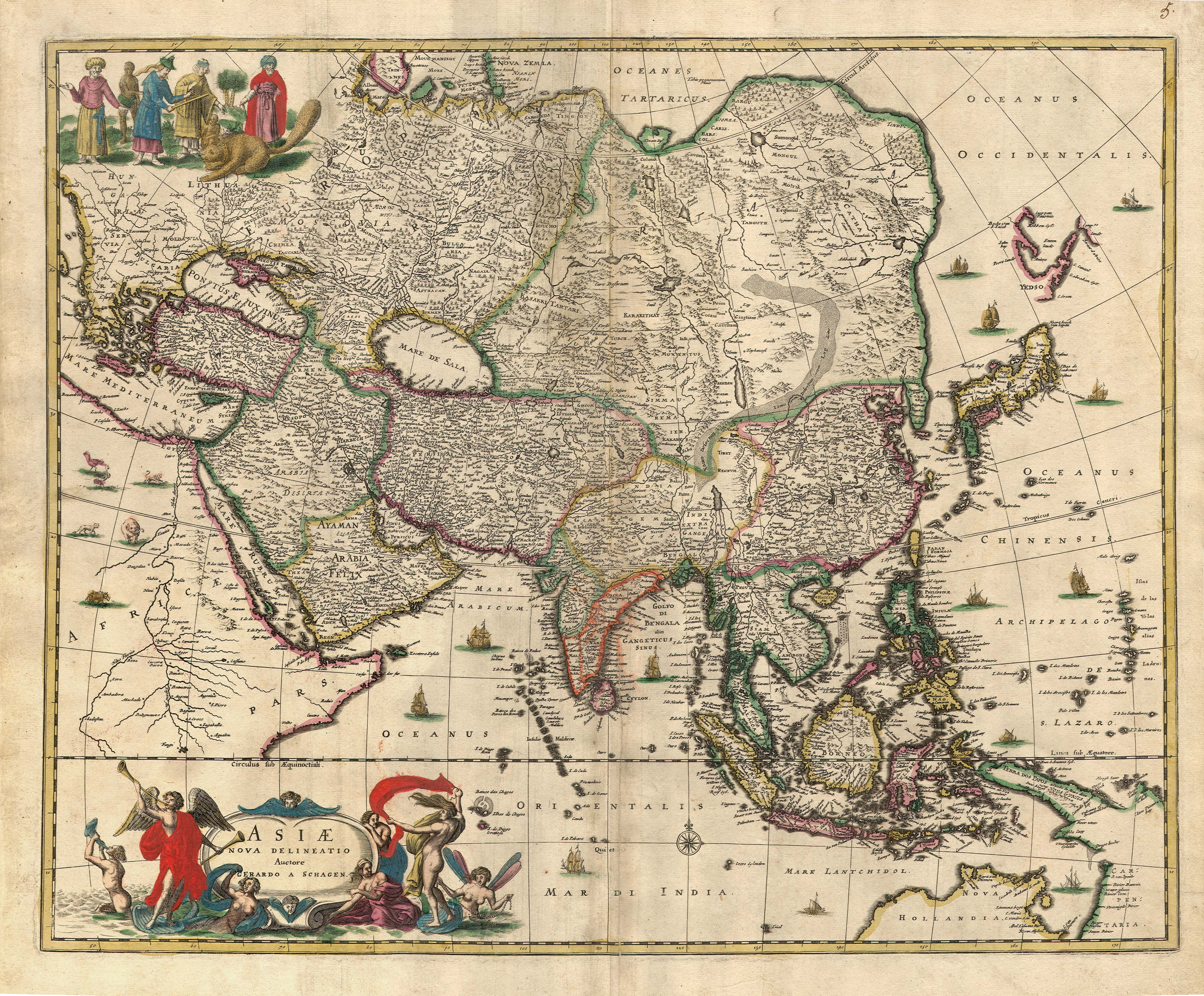 Asia map - Produced in Amsterdam FIRST edition : 1689 opper engraving